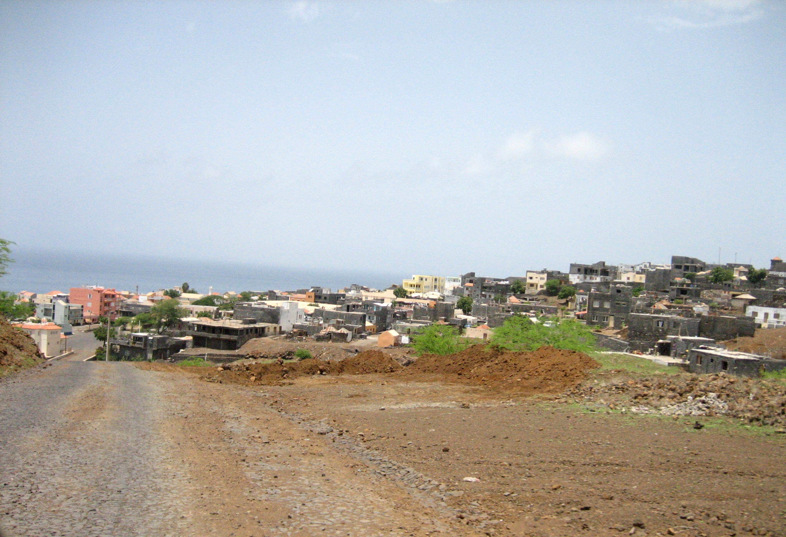 São Filipe on the Capeverdian island Fogo, seen from the road to the airport.